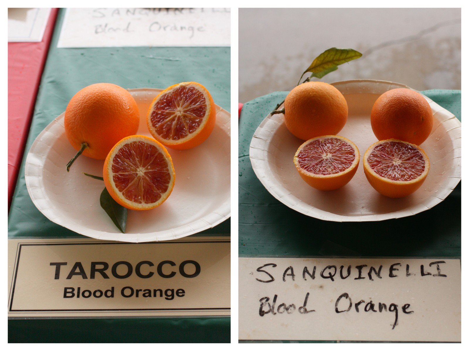 If you are juicing your blood oranges, the Tarocco makes a prettier juice, but for straight eating, I thought the Sanquinelli was more interested and sweeter.